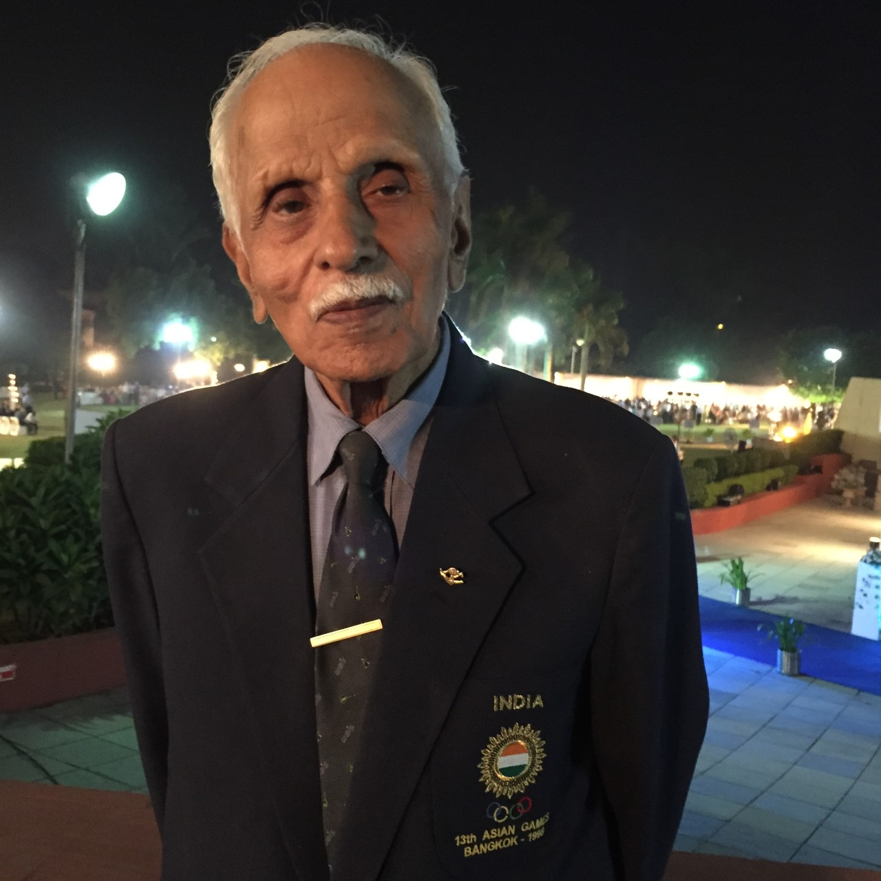 Mr Bhola wearing Indian colors